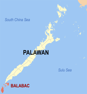 Map of Palawan showing the location of Balabac